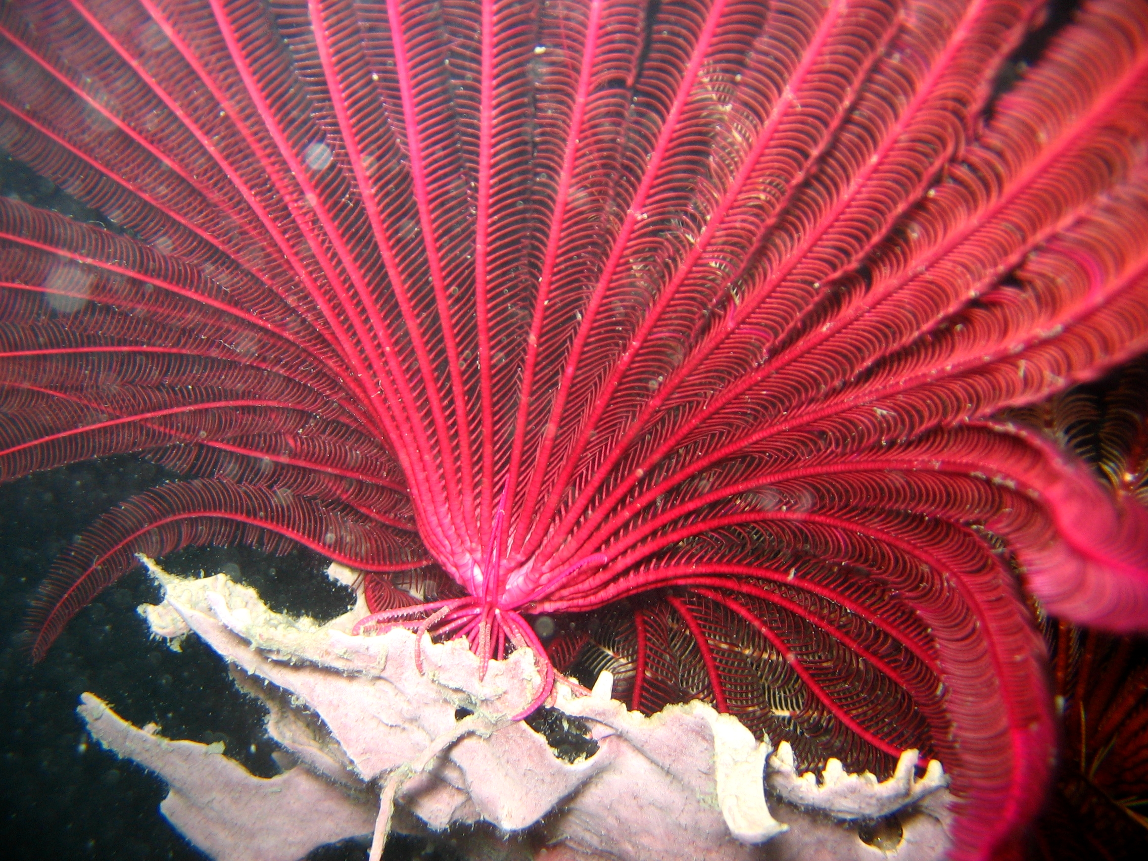 Red crinoid (maybe Pontiometra andersoni) at night. Philippine Islands, Occidental Mindoro, Pandan Is.